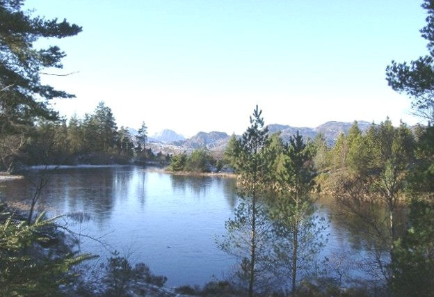 View from Gwydir Forest, looking towards the Glyderau and the Carneddau. Picture taken by Hogyn Lleol 18:26, 13 October 2006 (UTC)